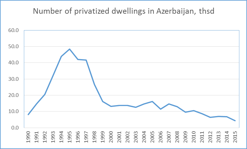 Number of privatized dwellings in Azerbaijan 1990-2015